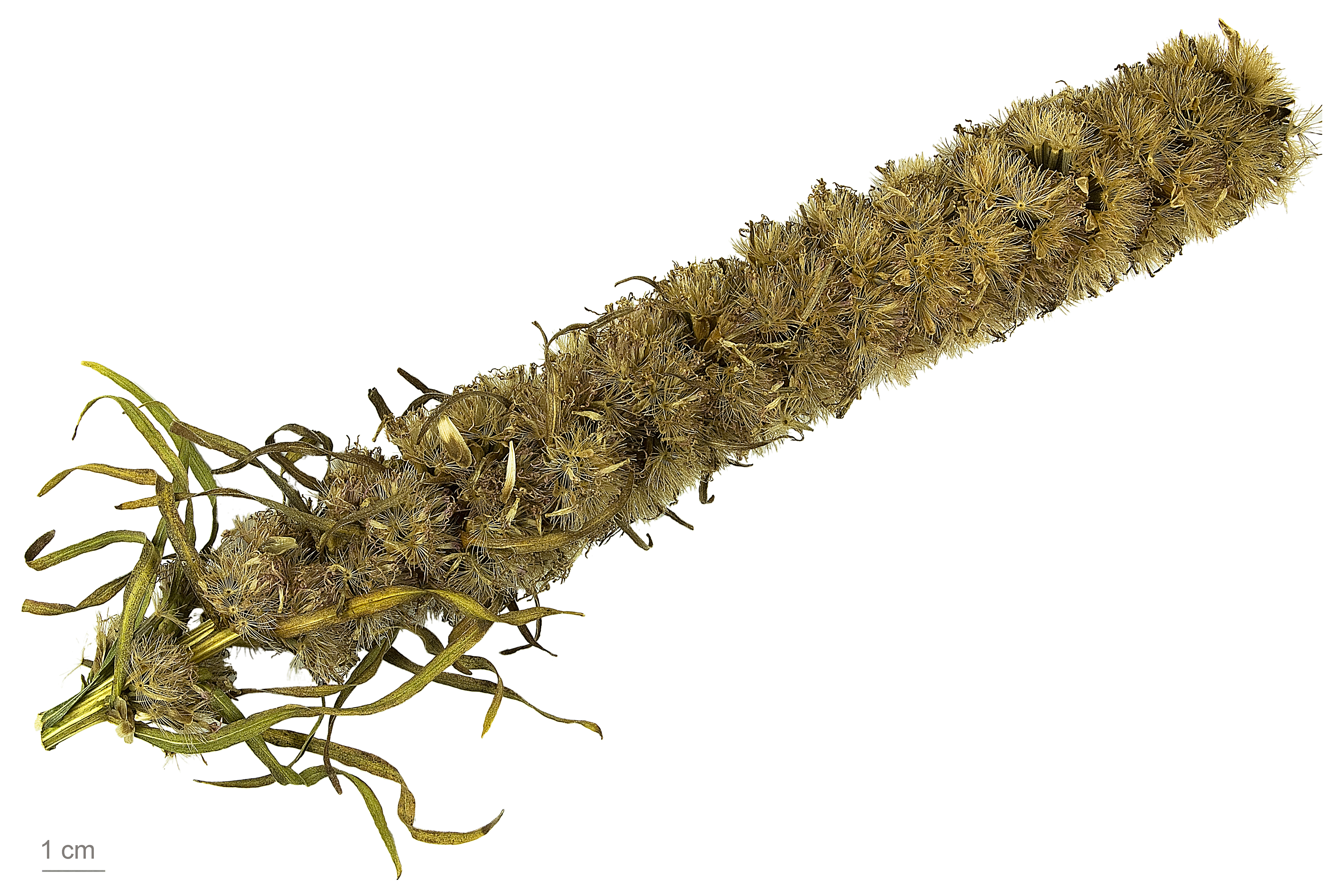 dense blazing star , fruits and seeds